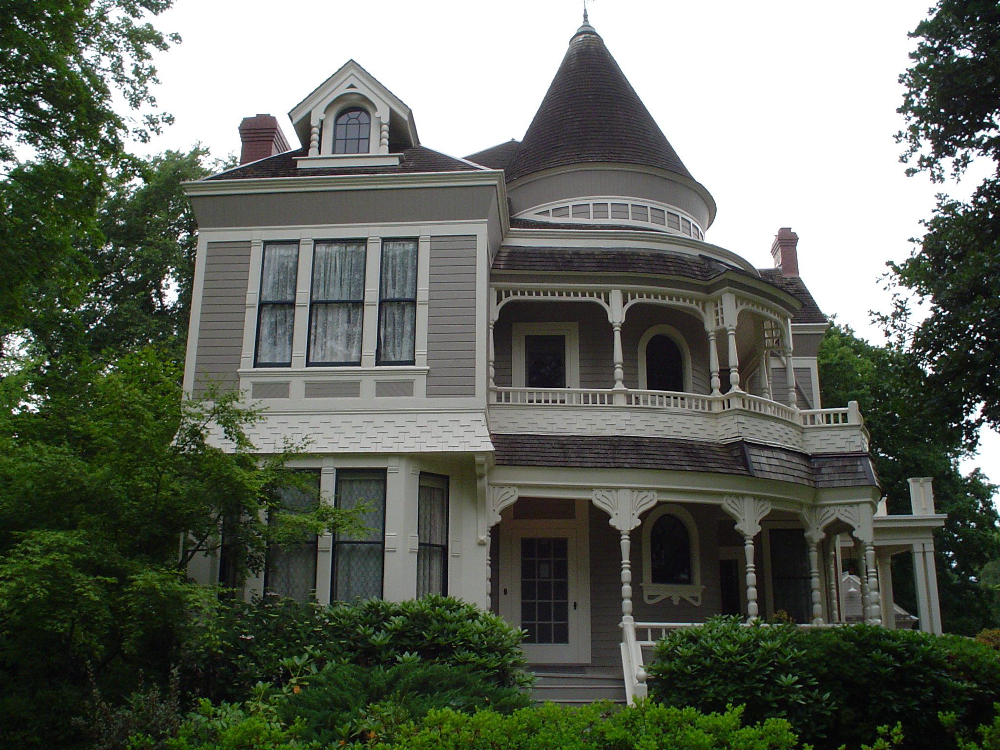 I took this picture. Hereby released. If used elsewhere, please credit me. Thanks. Andrew Parodi 08:45, 28 June 2007 (UTC)